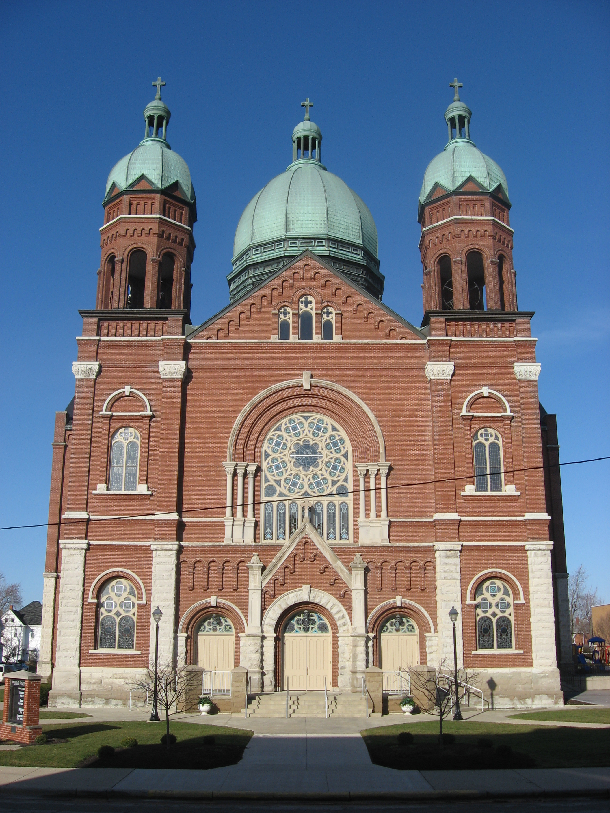 Front of Immaculate Conception Catholic Church, located on the northwestern corner of the intersection of Anthony and Walnut Streets in downtown Celina, Ohio, United States. Built in 1903, the church was listed on the National Register of Historic Places as a part of the Cross-Tipped Churches of Ohio Thematic Resources.